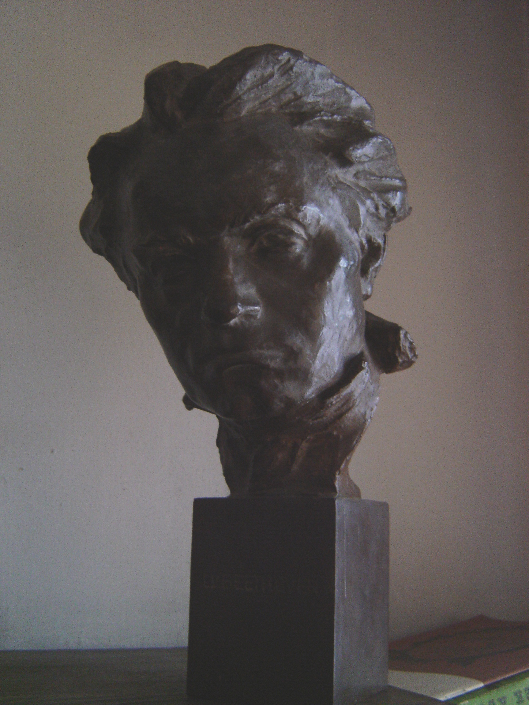 Bust of composer Ludwig van Beethoven from academic sculptor Jaroslava Lukešová (1920–2007)